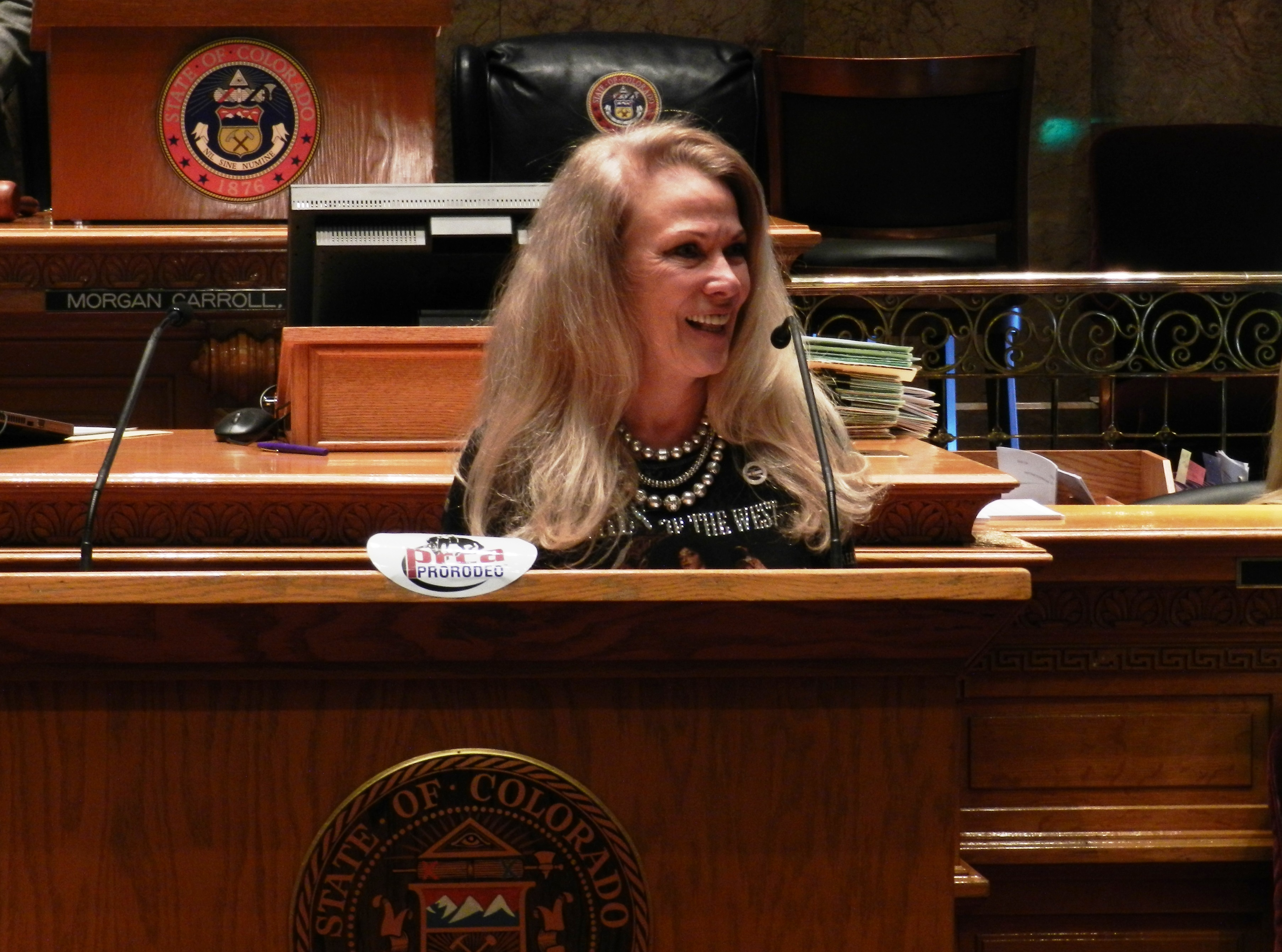 Senator Marble's Floor Speech